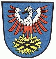 Coat of arms of Weener, Germany